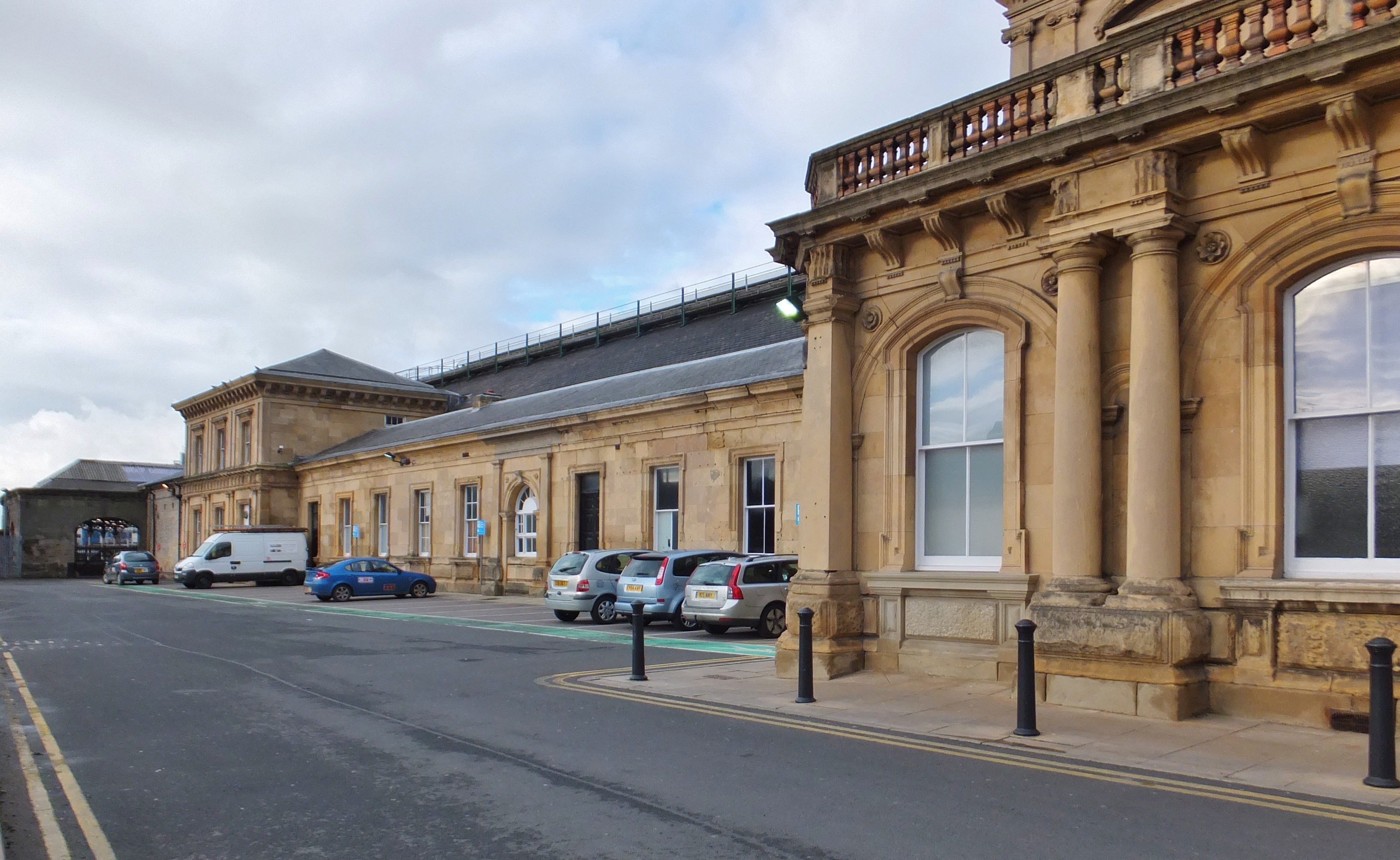 Original south fascade of station